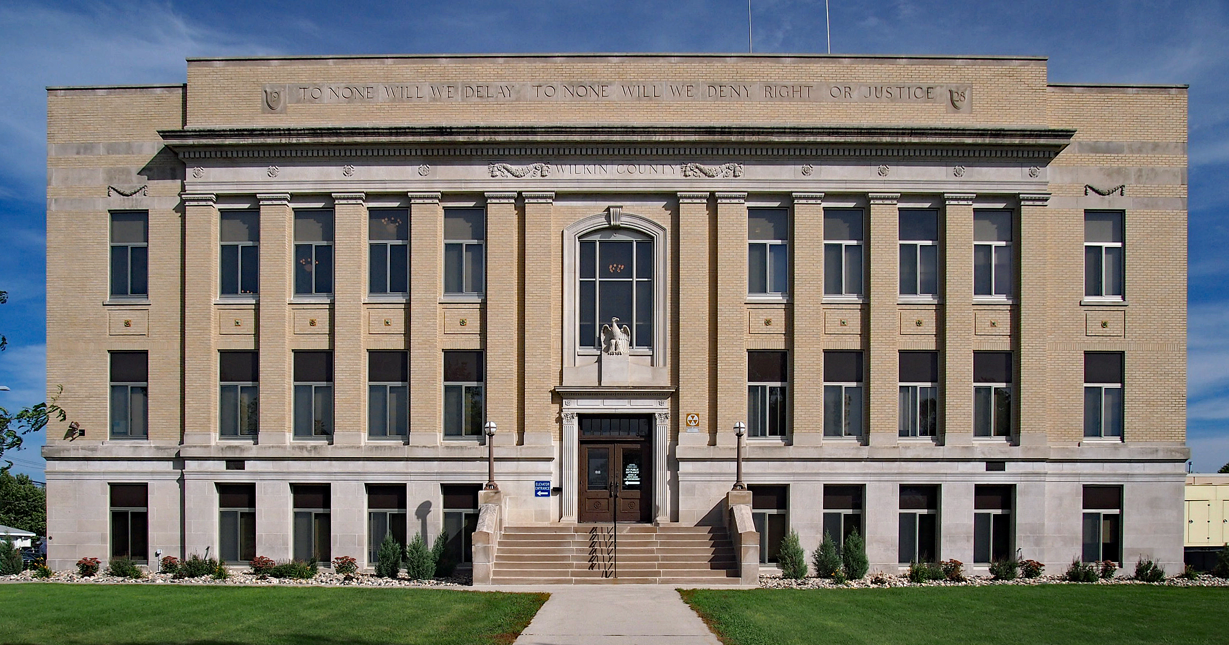 Wilkin County Courthouse, 316 S 5th St, Breckenridge, Minnesota, USA. Viewed from the west, corrected for tilt distortion.